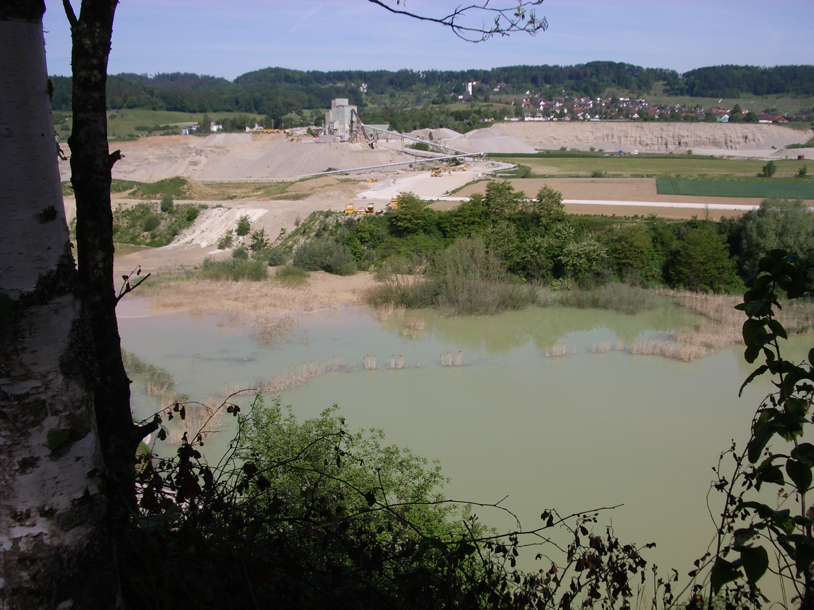 Rafzerfeld ZH, Switzerland